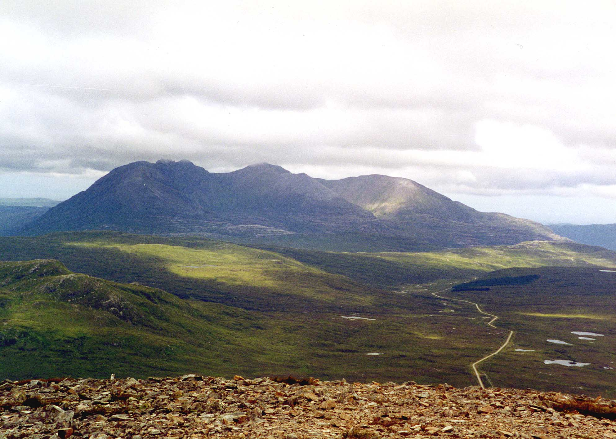 Personal picture taken by Mick Knapton